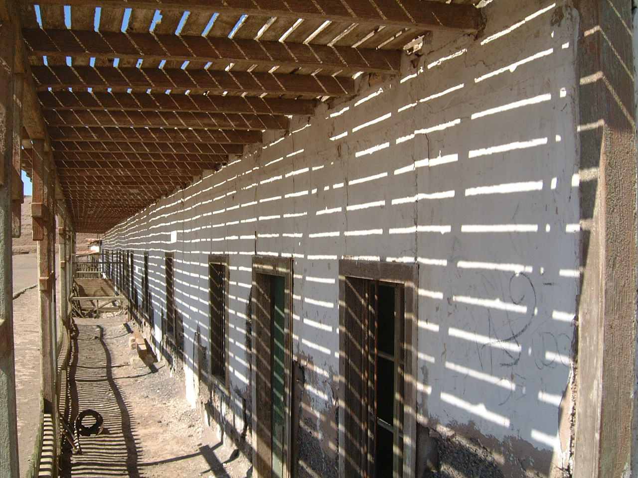 Pergola at Worker's houses in Humberstone Saltpeter Works — Chile